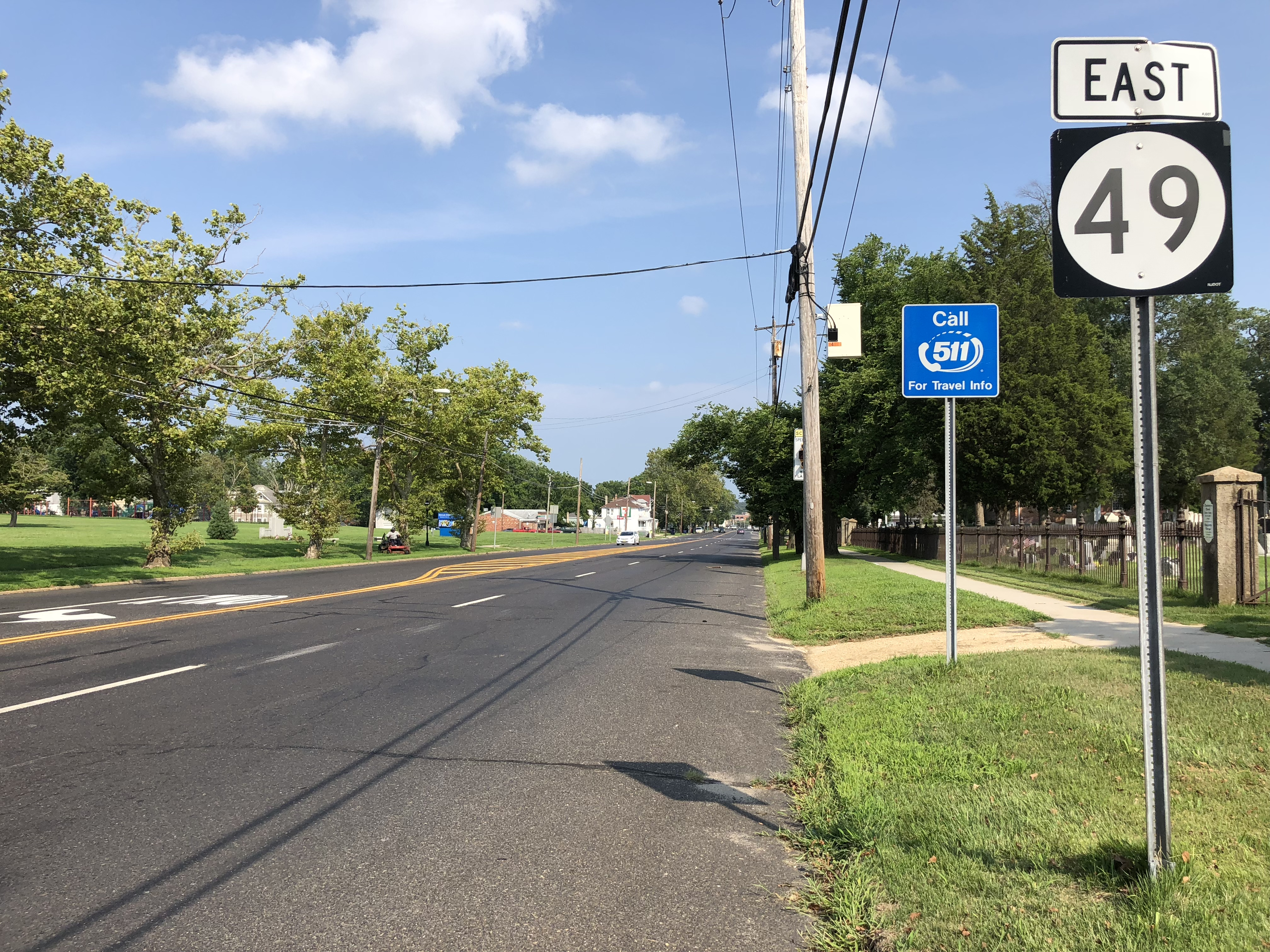 View east along New Jersey State Route 49 (Broad Street) just east of Cumberland County Route 607 (West Avenue) in Bridgeton, Cumberland County, New Jersey